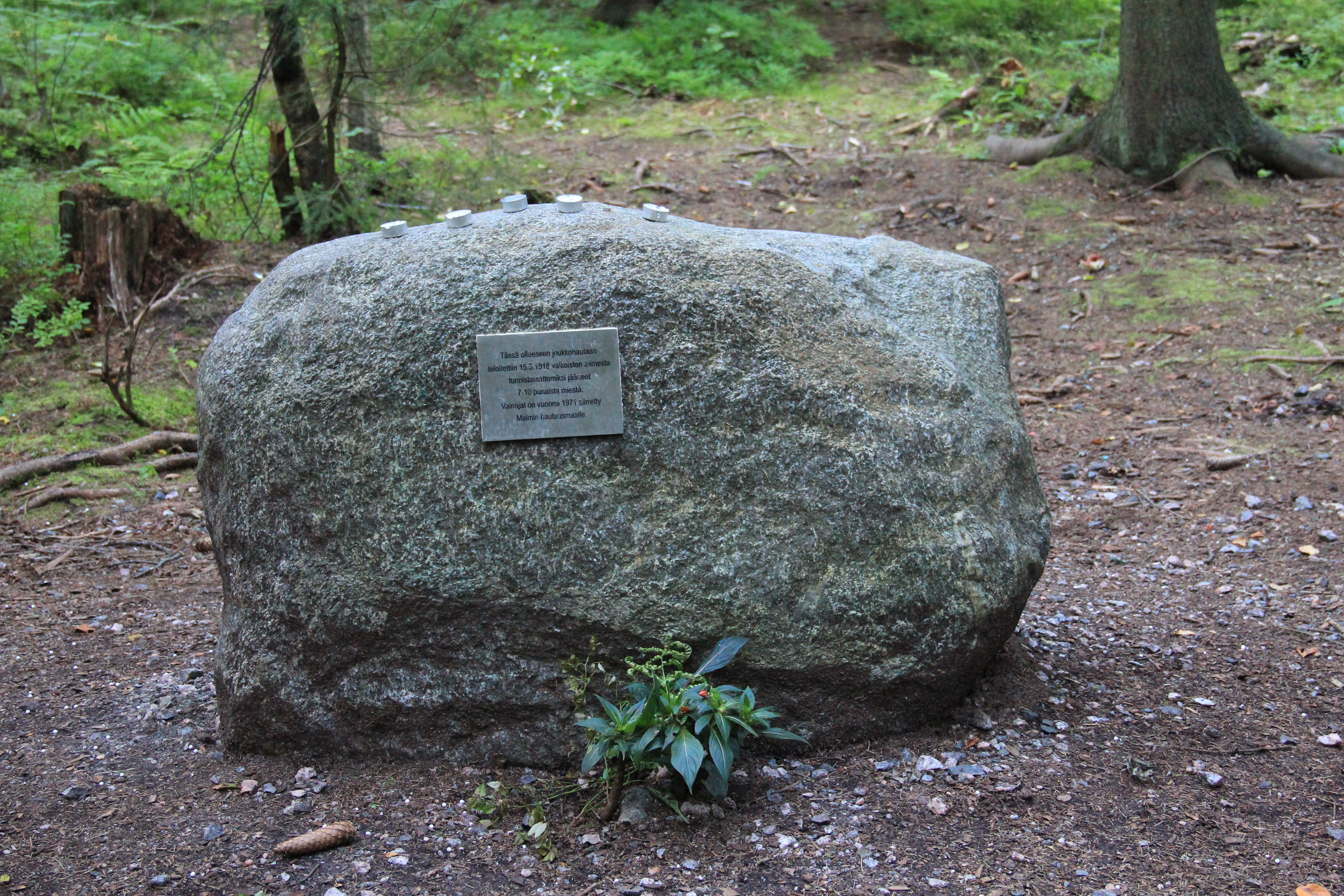 Puustellinmetsä mass grave memorial, Siltamäki, Helsinki, Finland.